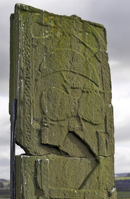 St Orlands Stone. Details of the symbols on the Pictish side of the stone.... and a popular roosting place for the birds.